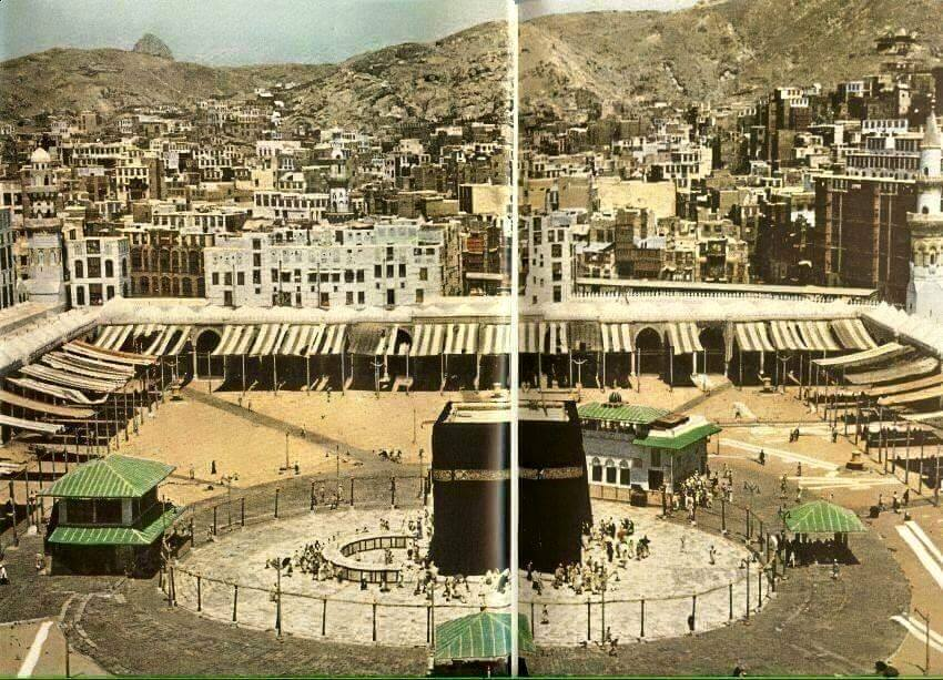 Hajj 1965